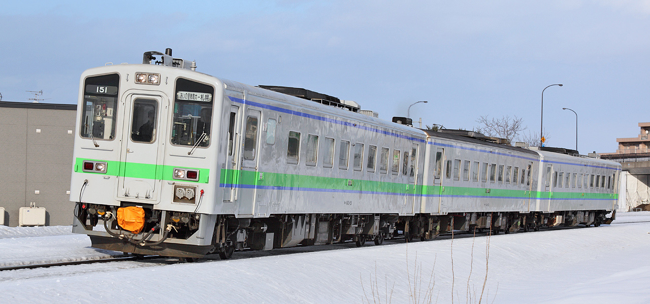 A JR Hokkaido 141 series DMU set formed of Kiha 143 + Kisaha 144 + Kiha 143 between Taihei and Shin-kotoni stations on the Sassho Line